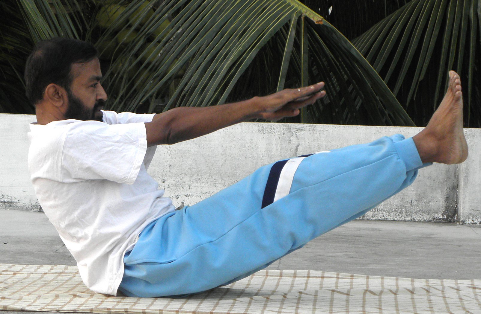 Boat pose